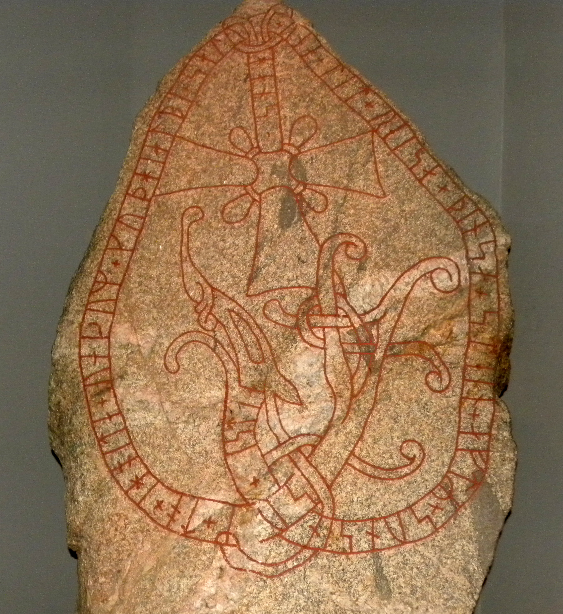 Uppland Runic Inscription U 613 at the National Historical Museum in Stockholm, Sweden.